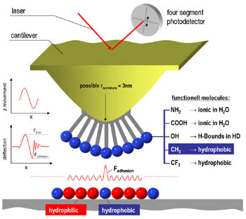 NanoCraft, Michael Korte, Schematic setup of the chemical probe and the principle of the contrast mechanism of the Chemical Force Microscopy.